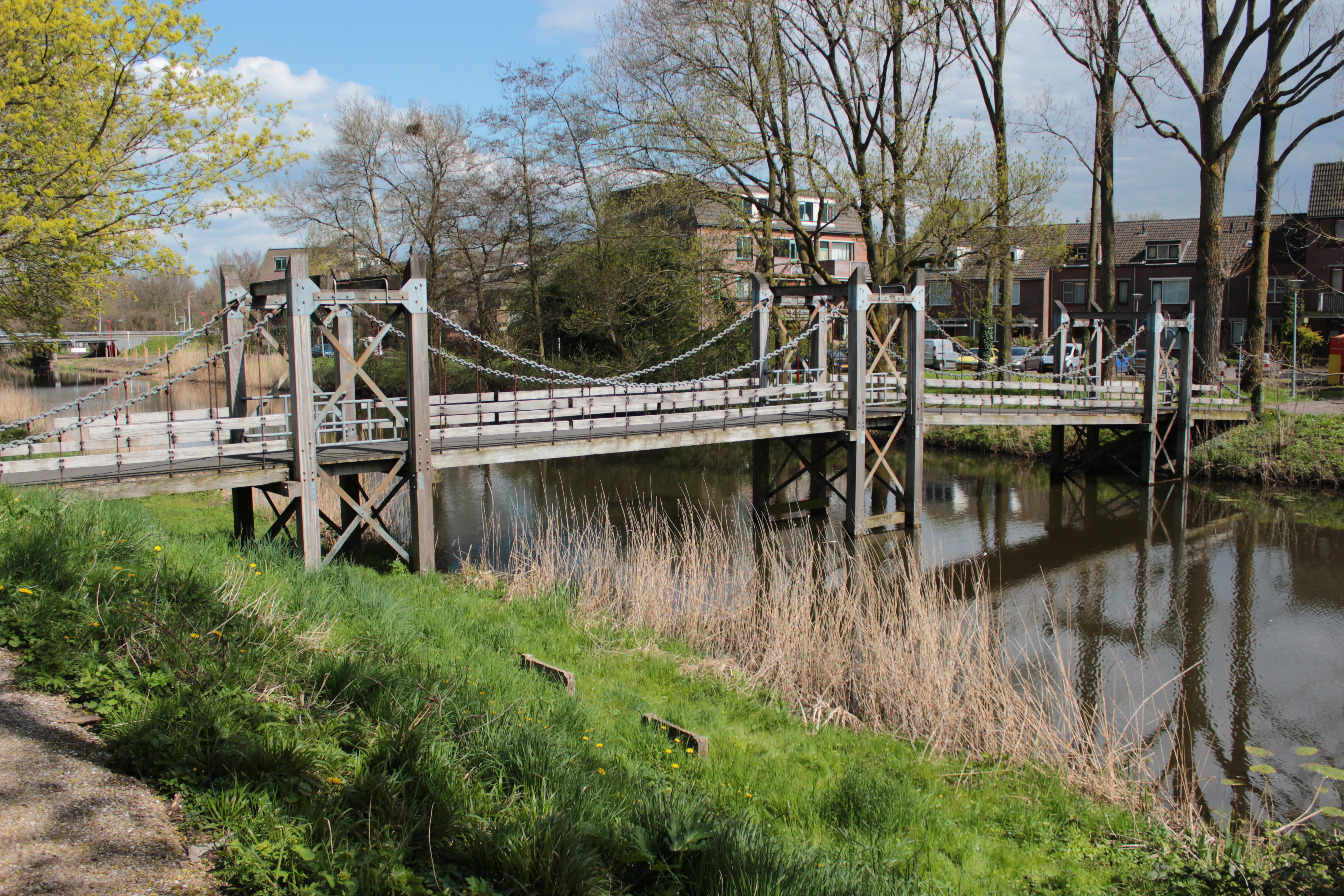 Een van de hangbruggen over het inundatiekanaal, Lunetten, Utrecht.